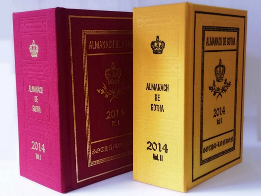 Cover's of the 2014 Almanach de Gotha